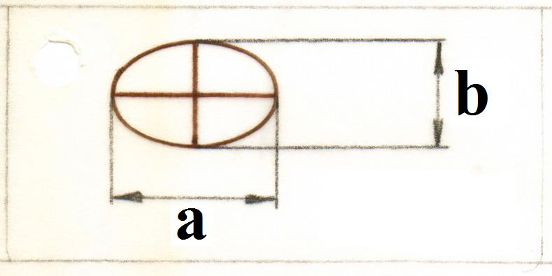 Elypse